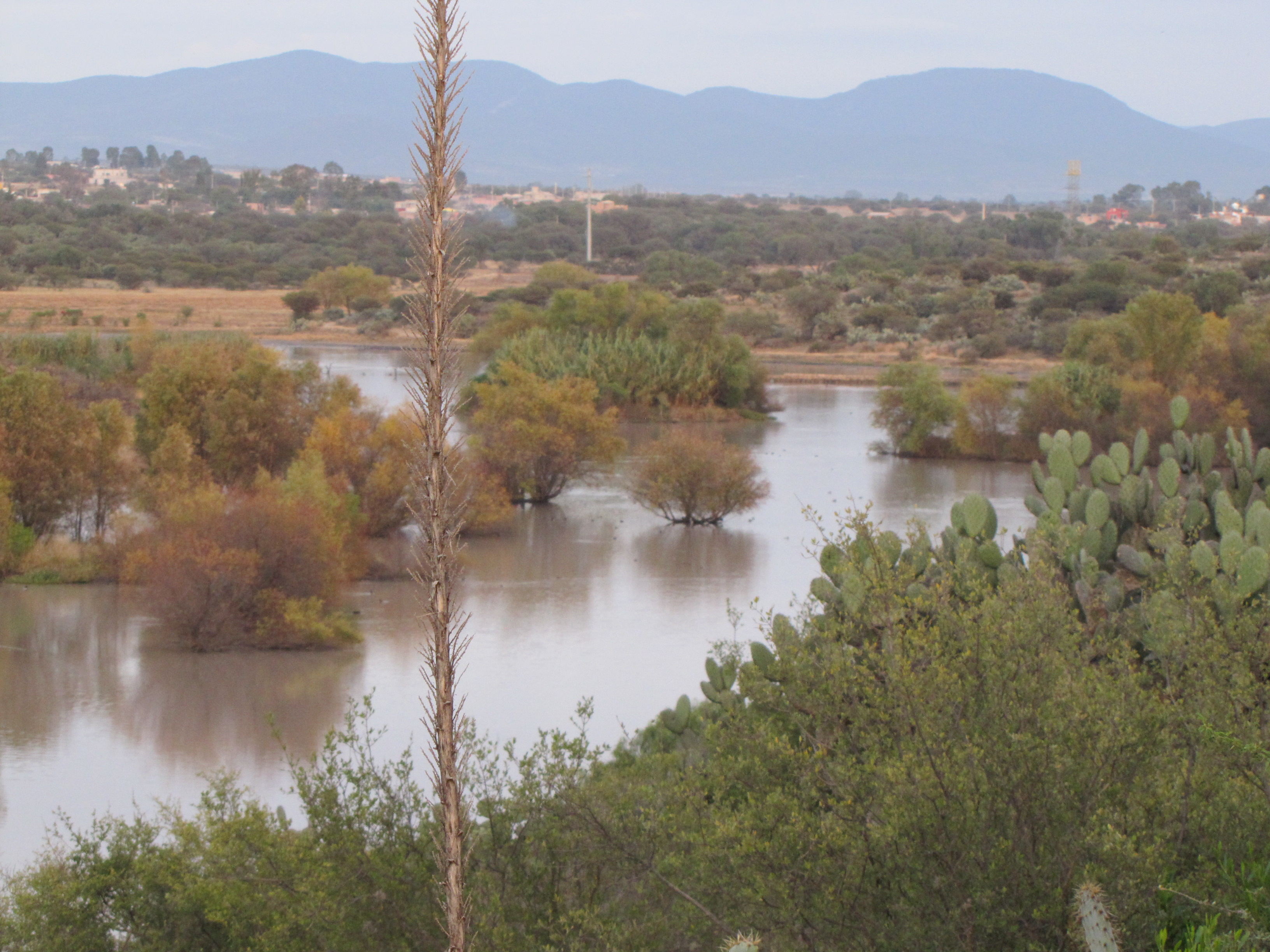 Wetland at Presa Las Colonias, El Charco del Ingenio botanic garden, San Miguel de Allende Guanajuato, Mexico